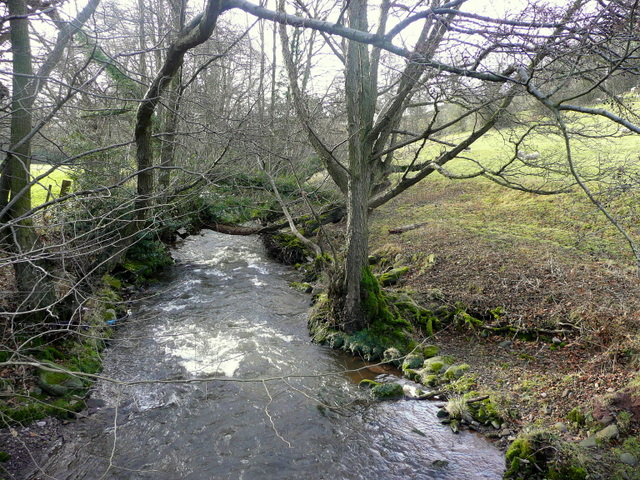 The Rhiangoll north of Cwmdu Looking south-south-west from the bridge near the village hall.